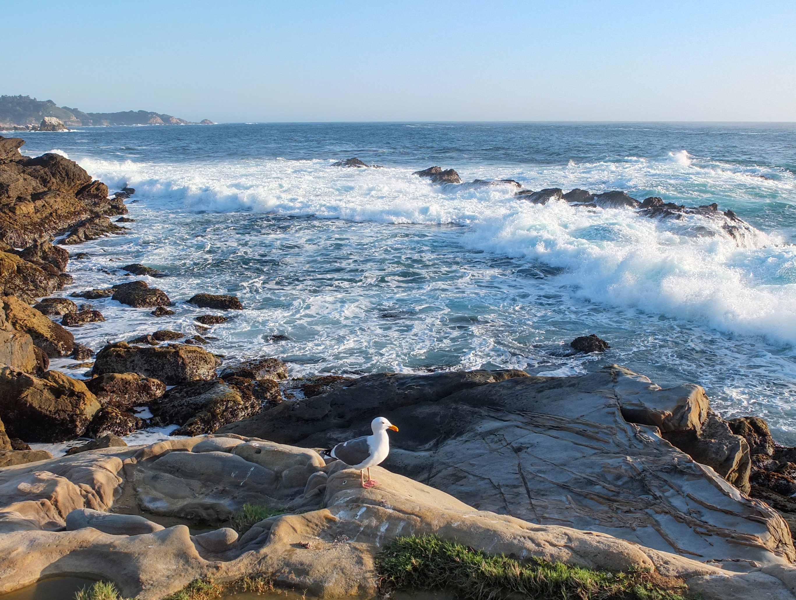 A Larus occidentalis, or Western gull, at Point Lobos State Reserve near Monterrey, California, United States.